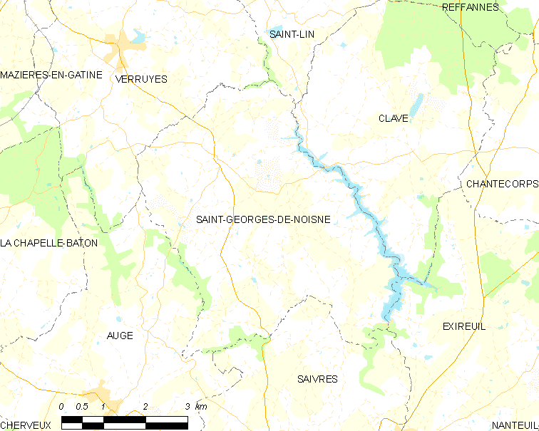 Map of French municipality Saint-Georges-de-Noisné